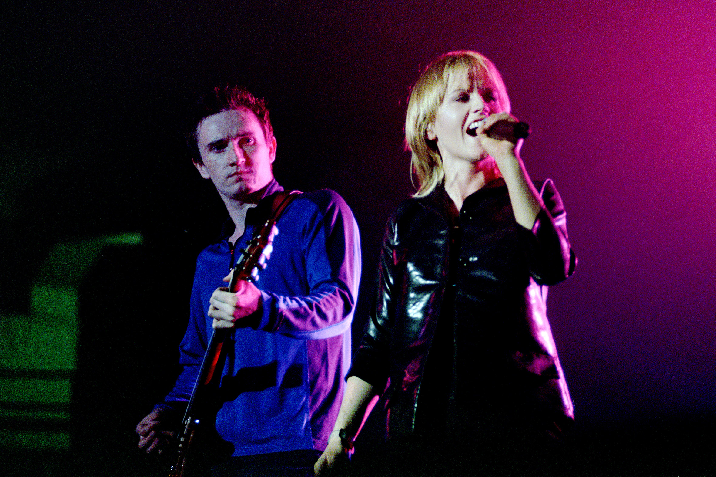 The Cranberries - Loud And Clear World Tour 1999